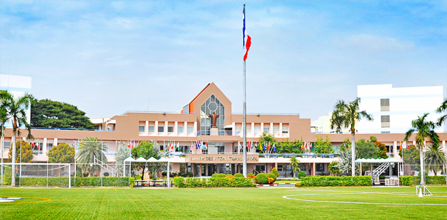 Front of Ruamrudee International School